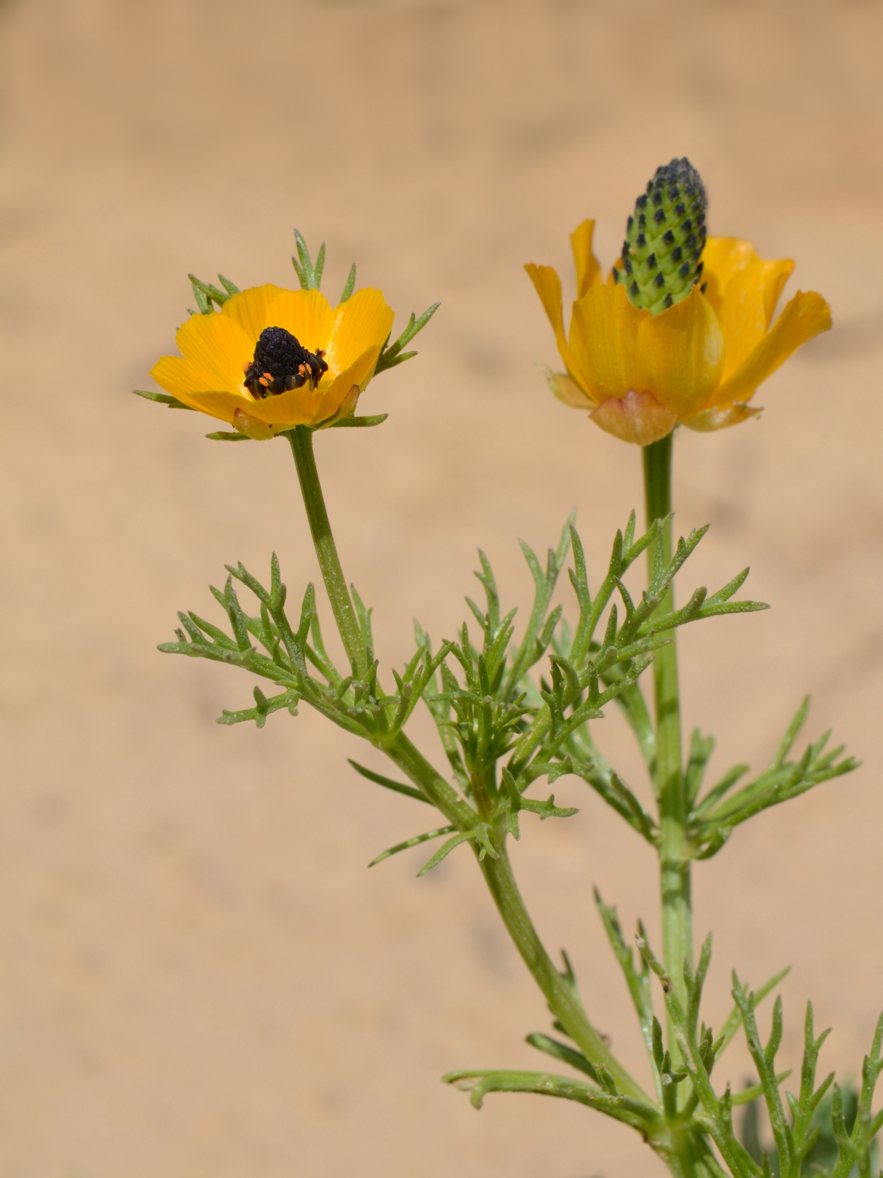 Adonis dentata Delile, Arad Valley, Israel, March 26, 2012.